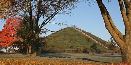 Photo attribution: "Copyright by J. Q. Jacobs, "